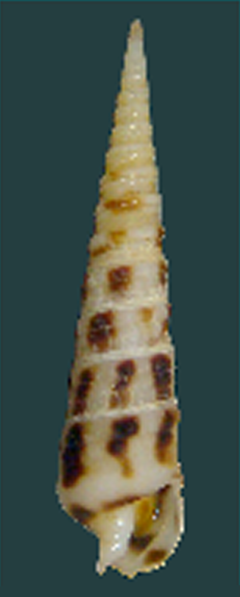 Shell of Terebra argosyia.